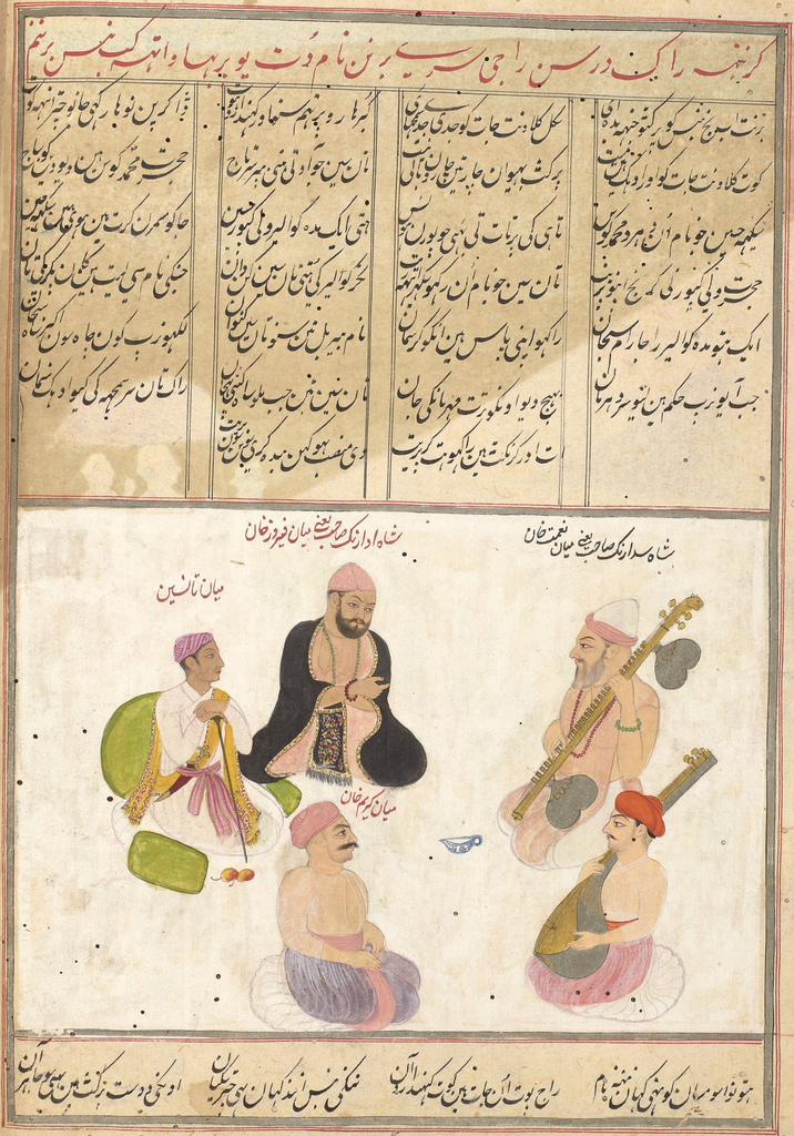 Sadaranf Chief musician Mohammad Shah Rangeela